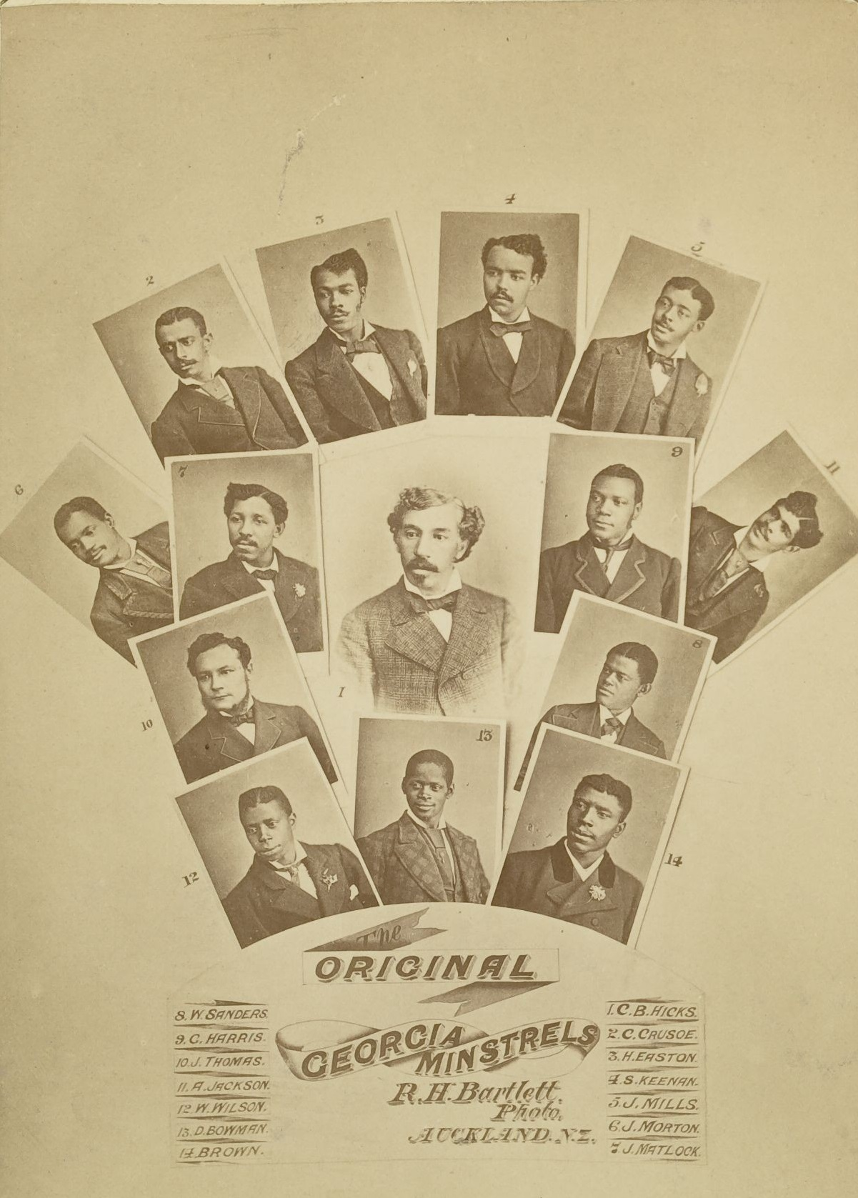 Cabinet card image of the Georgia Minstrels, including founder C. B. Hicks at center. Photographed for their Australian/Asian tour. From a collection dated 1919. Cropped version. TCS 1.440, Harvard Theatre Collection, Harvard University